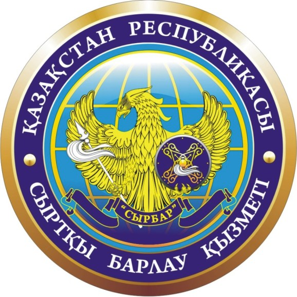 Emblem of Syrbar Intelligence Service of Kazakhstan